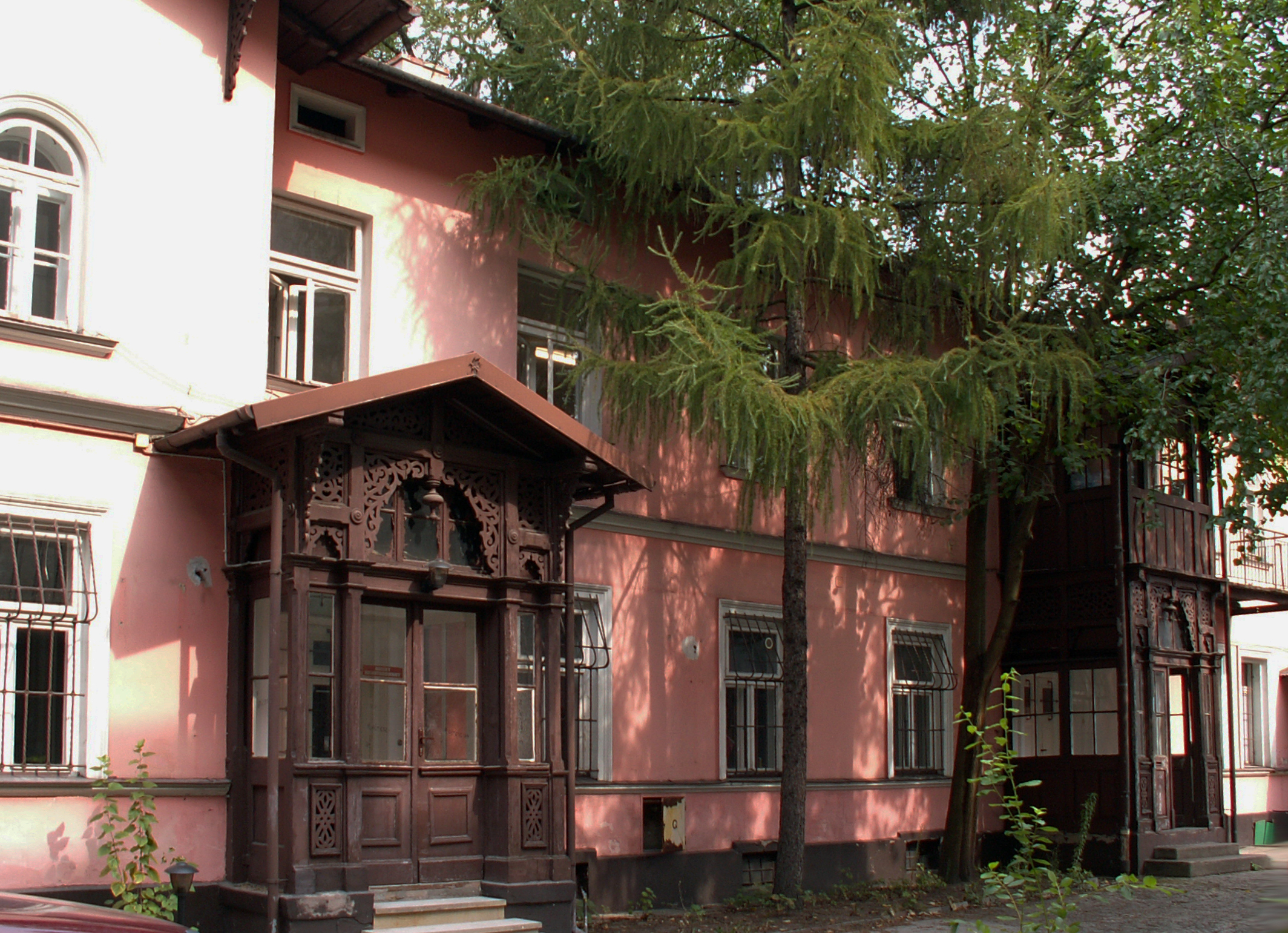 House (1878, designed by arch. Antoni Łuszczkiewicz), 15 Rakowicka street, Krakow, Poland